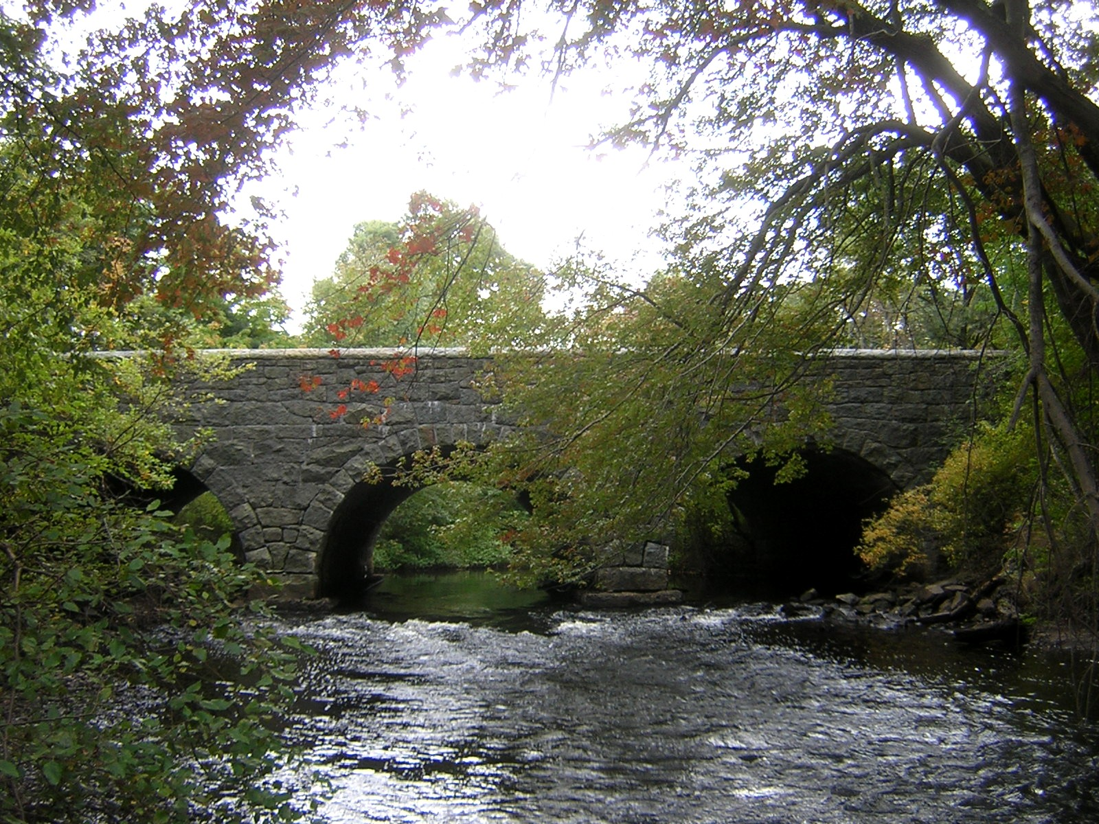 Paul's Bridge, Milton and Boston Massachusetts, crossing the Neponset River, the border between the two.